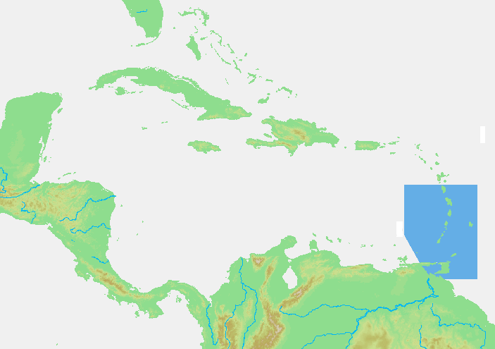 Caribbean - Windward Islands.PNG